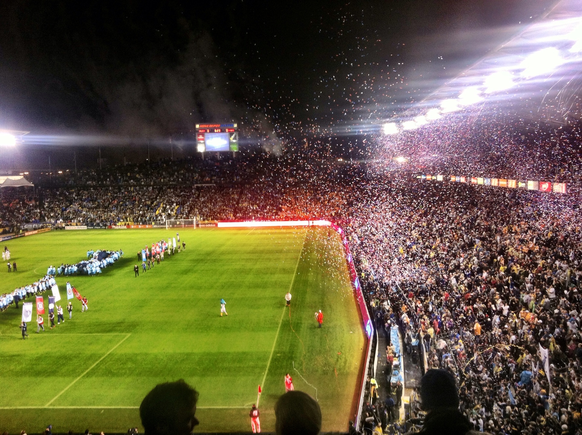 MLS Cup Final 2011 at Home Deport Stadium in Carson, California.